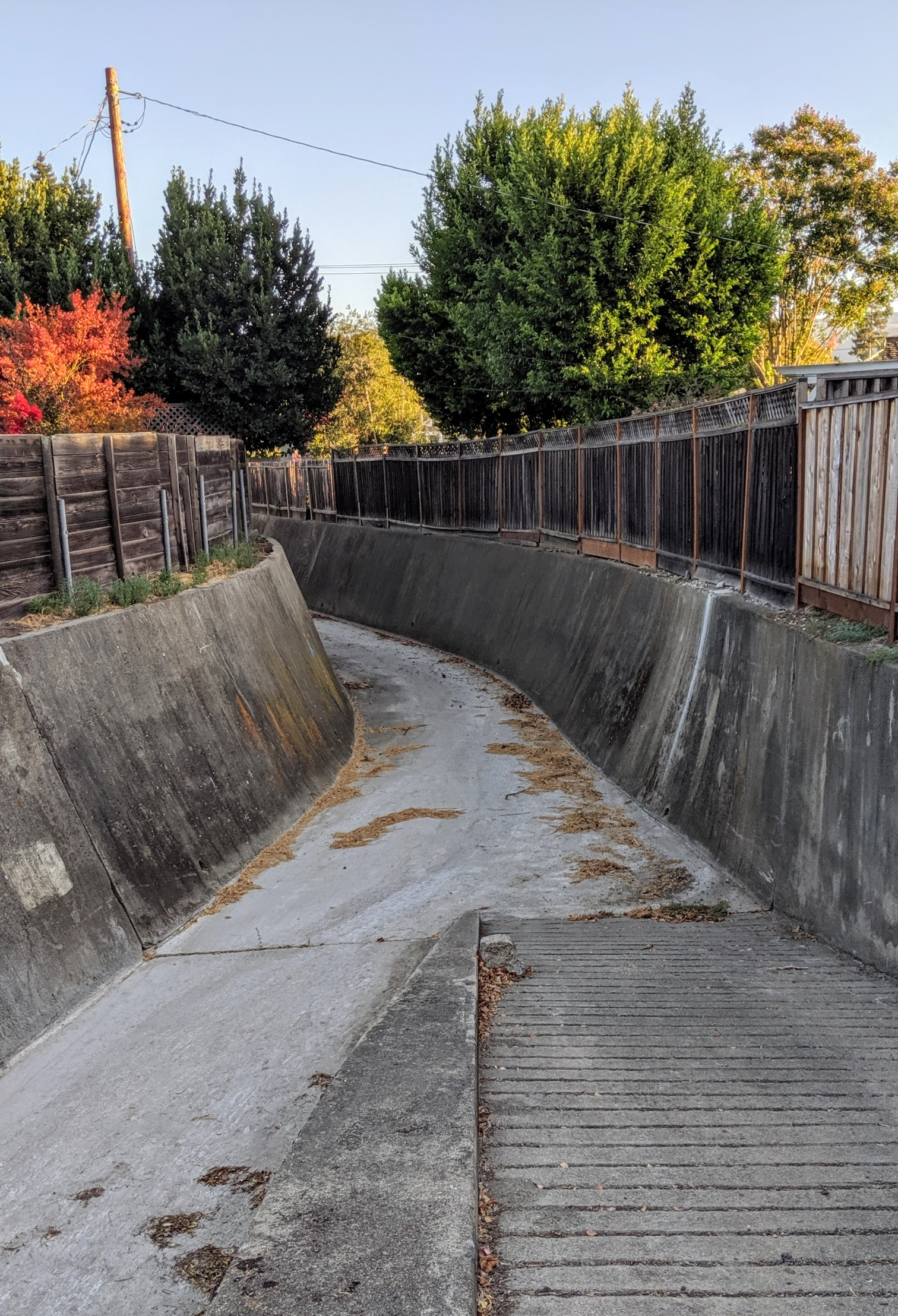 Hale Creek at Marilyn Drive, Mountain View, California, near the border of Los Altos, California